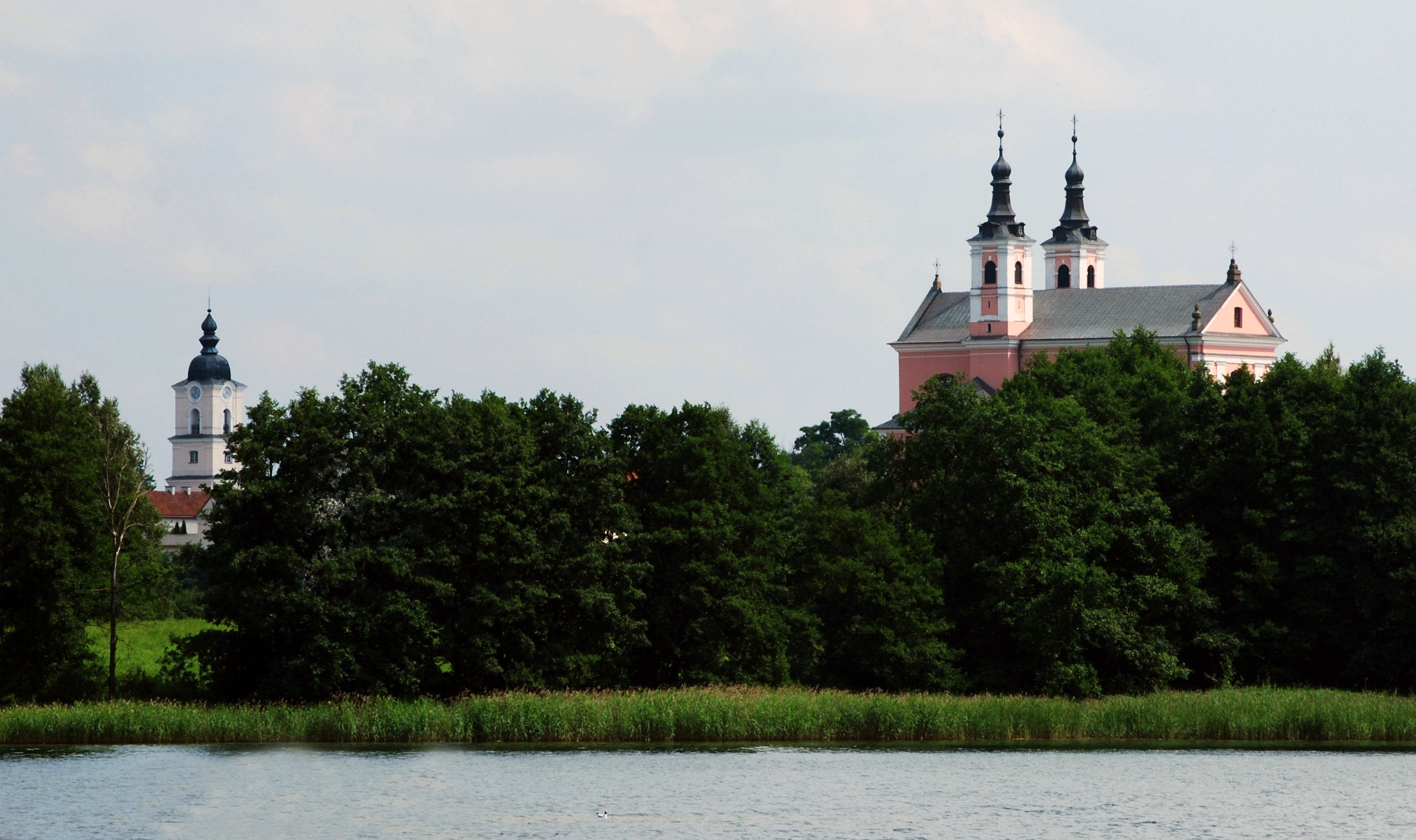 This photo from Podlaskie Voievodeship was taken during Polish Wikiexpedition 2009 set up by Wikimedia Polska Association. The making of this document was supported by Wikimedia Polska. Klasztor Kamedułów w Wigrach, zdjęcie z plaży w Starym Folwarku.